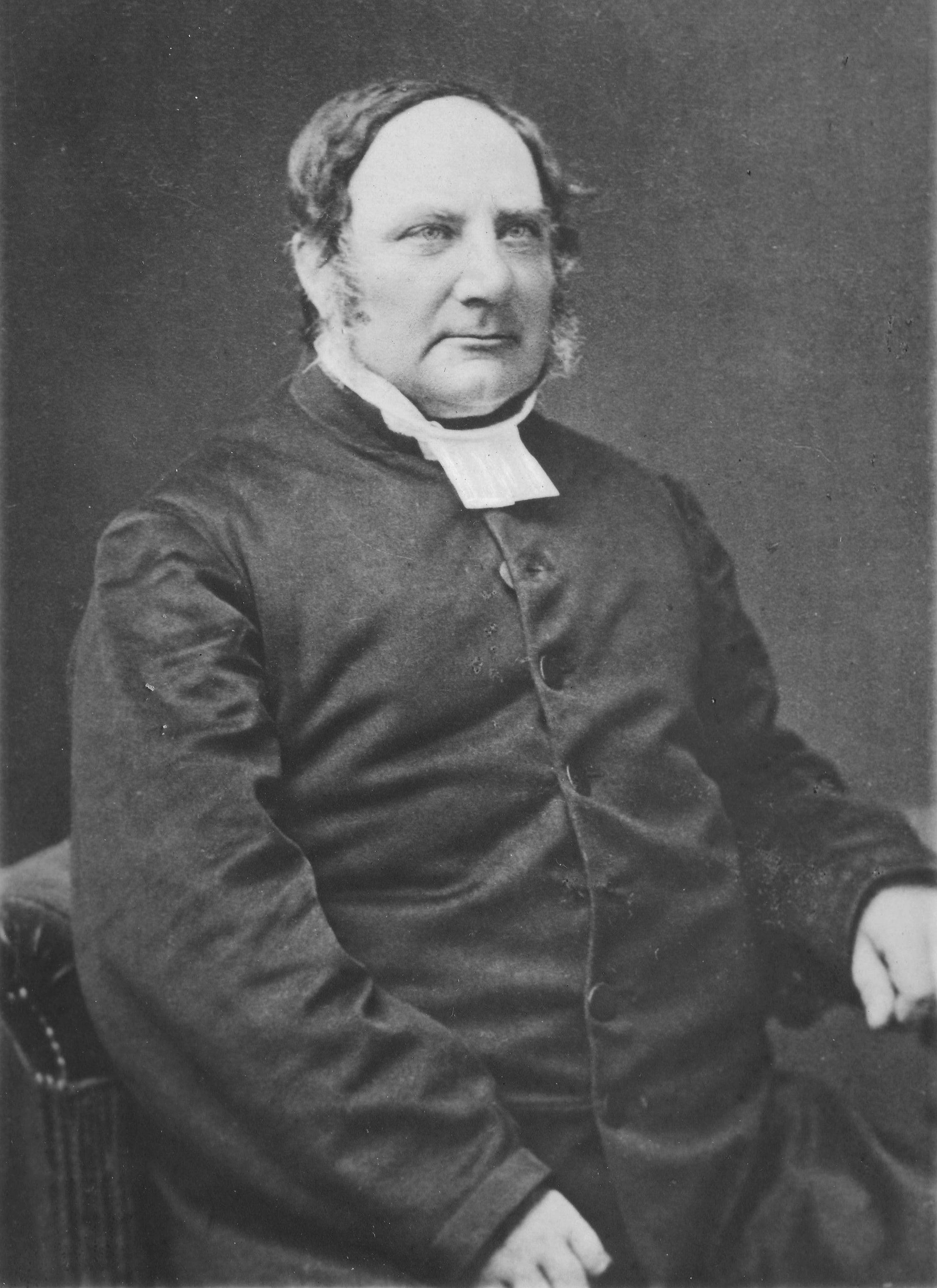 Portrait of Fredrik Wennersten 1809-1880